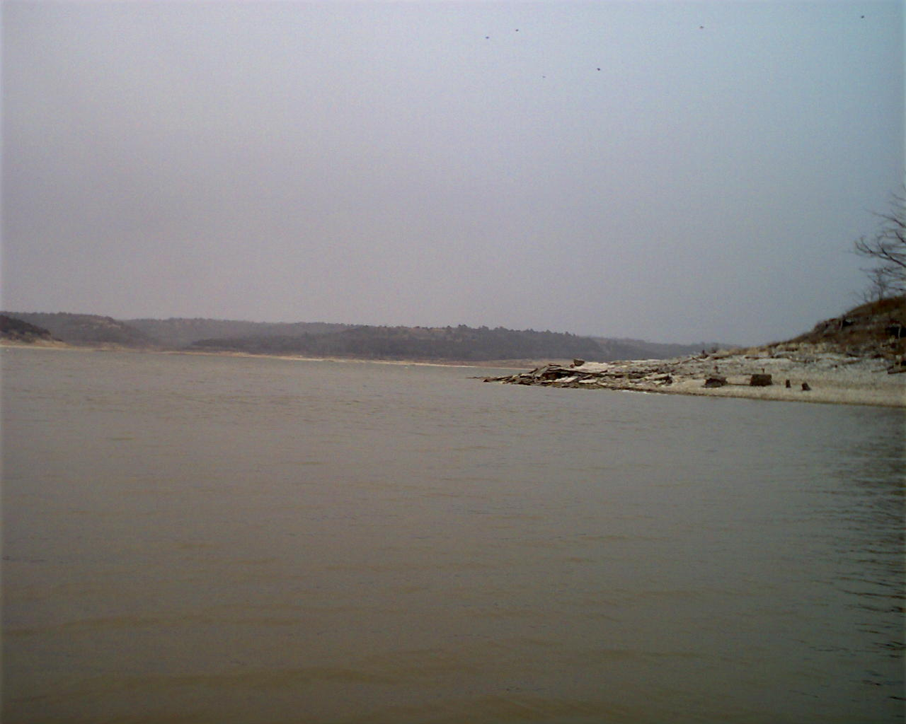 I (Nick Warren) took this photo myself. This is the lakeshore near my house.